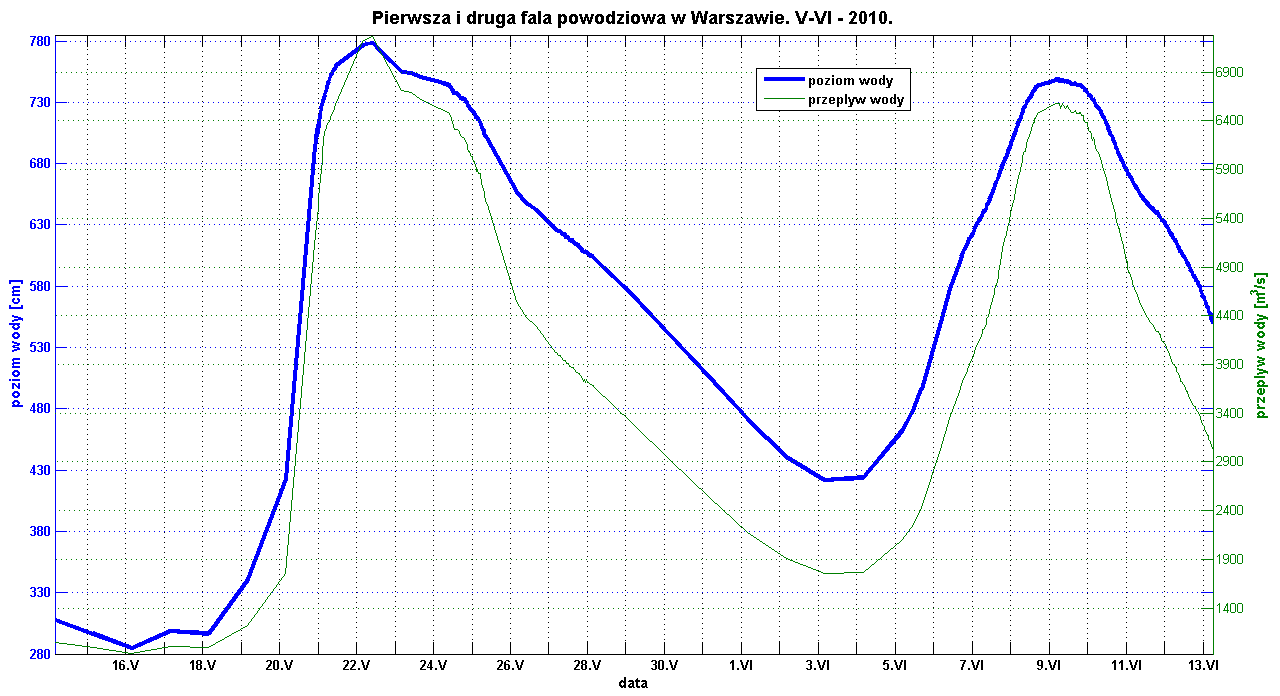 State of water in the Vistula River in Warsaw, during the floods of 2010.